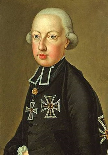 Archduke Maximilian Franz of Austria (1756-1801)